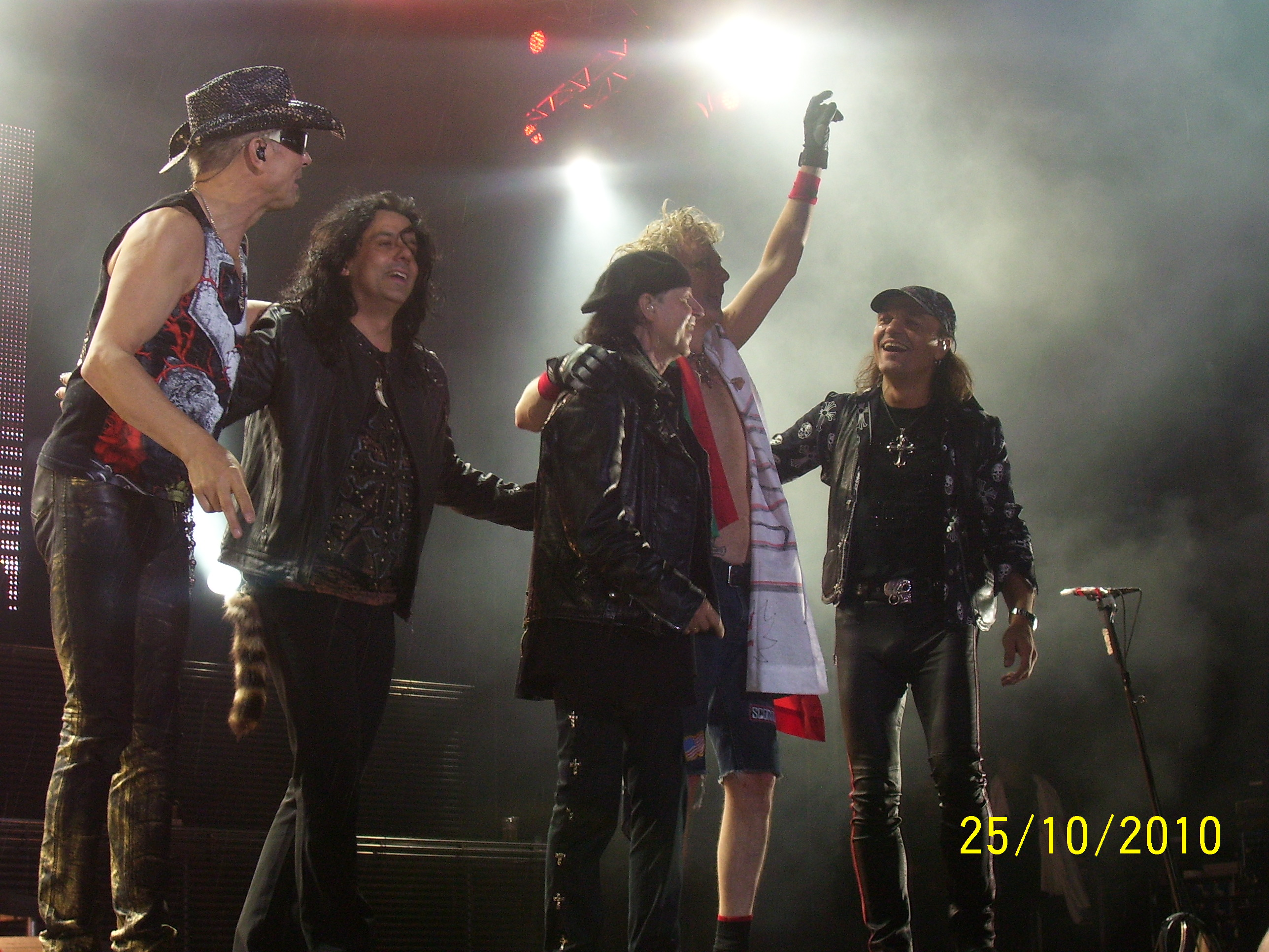 Scorpions farewell concert in Bulgaria.